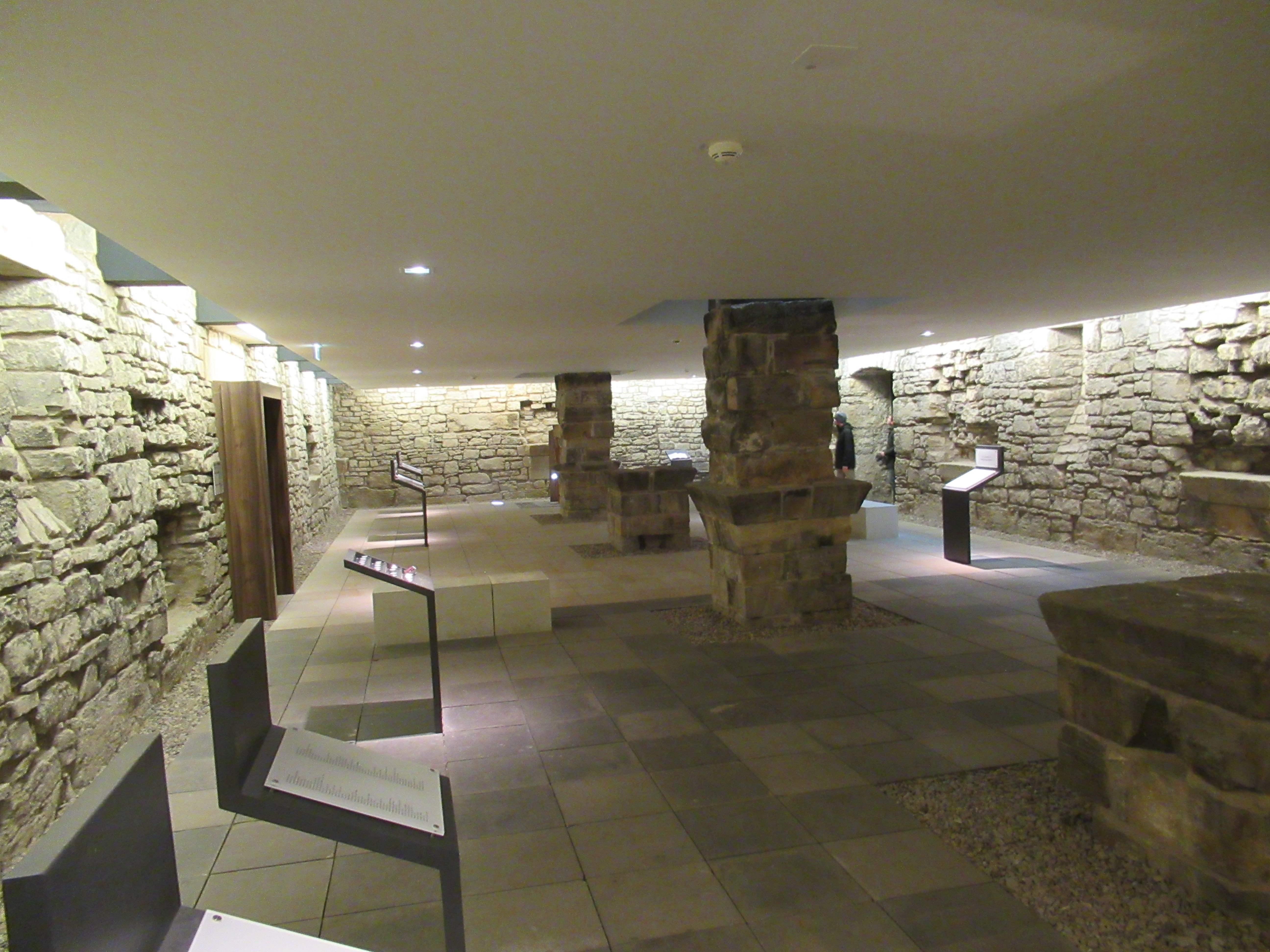 Erfurt Augustinerkloster former Air Shelter